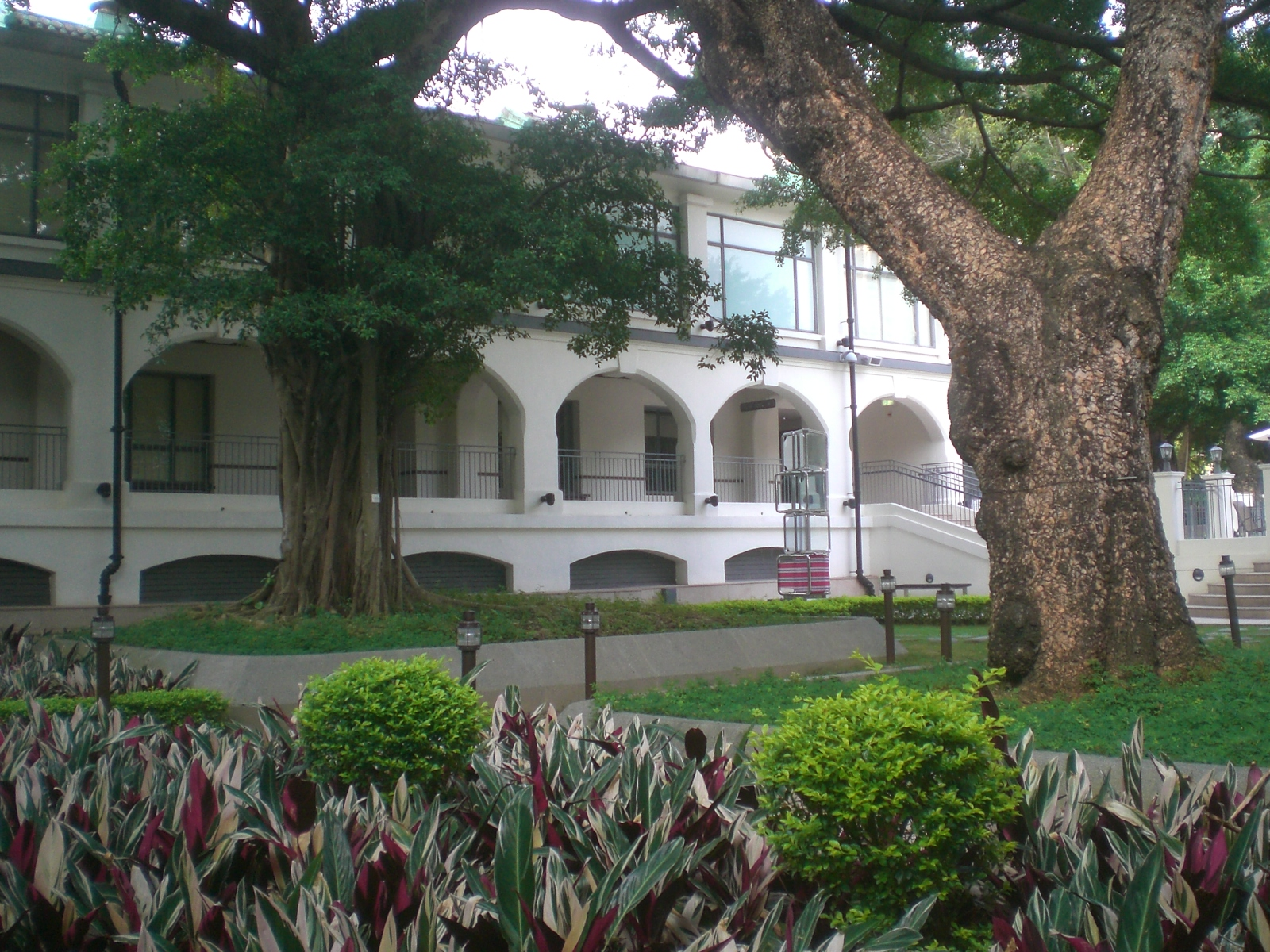 九龍公園香港文物探知館 大葉合歡[1]